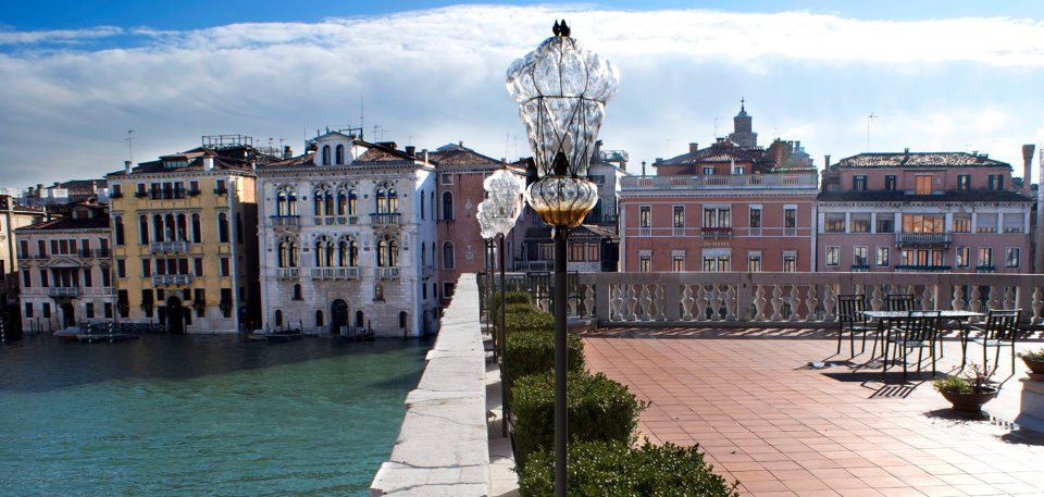 Terrassenblick, Palazzo Barbarigio della Terrazza, Venice, Italy